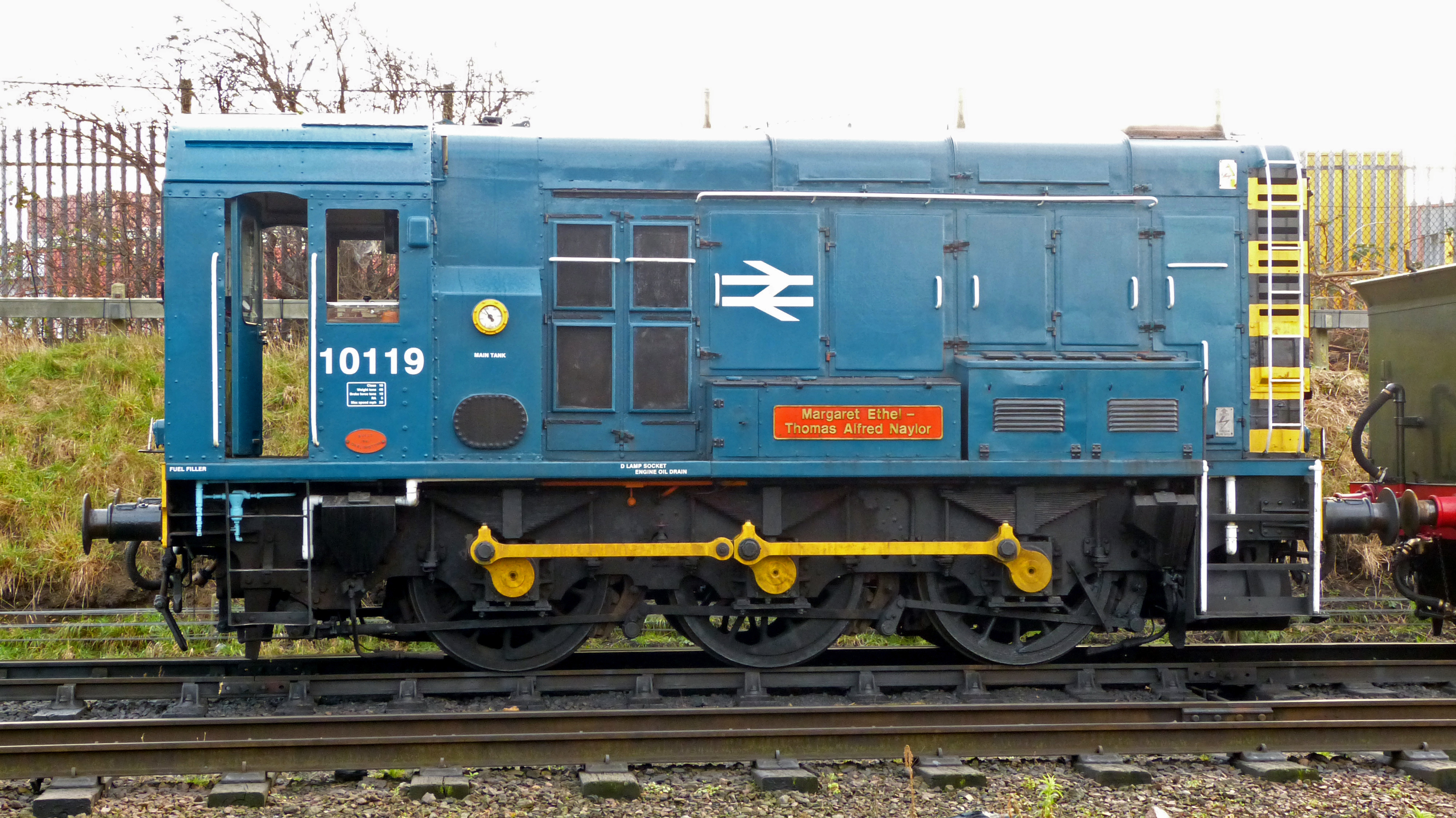 The British Rail Class 10 diesel locomotive was a variation on the Class 08 diesel-electric shunter in which a Blackstone diesel engine was fitted instead of one made by the English Electric company. Traction motors were by either the General Electric Company plc (GEC) or British Thomson-Houston (BTH). The locomotives were built at the BR Works in Darlington and Doncaster over the period 1953–1962. Early batches were classified D3/4 (those with GEC motors) and D3/5 (those with BTH motors).